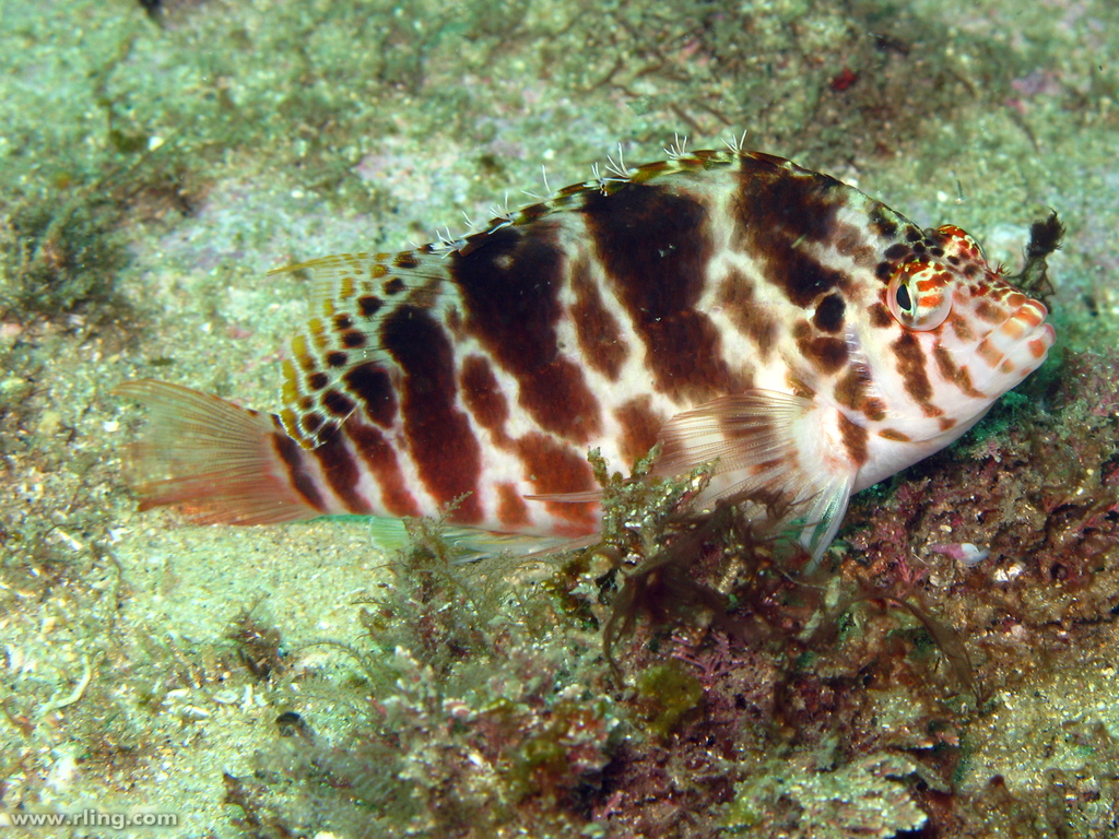 A Blotched Hawkfish (Cirrhitichthys aprinus). Oak Park, Cronulla, NSW